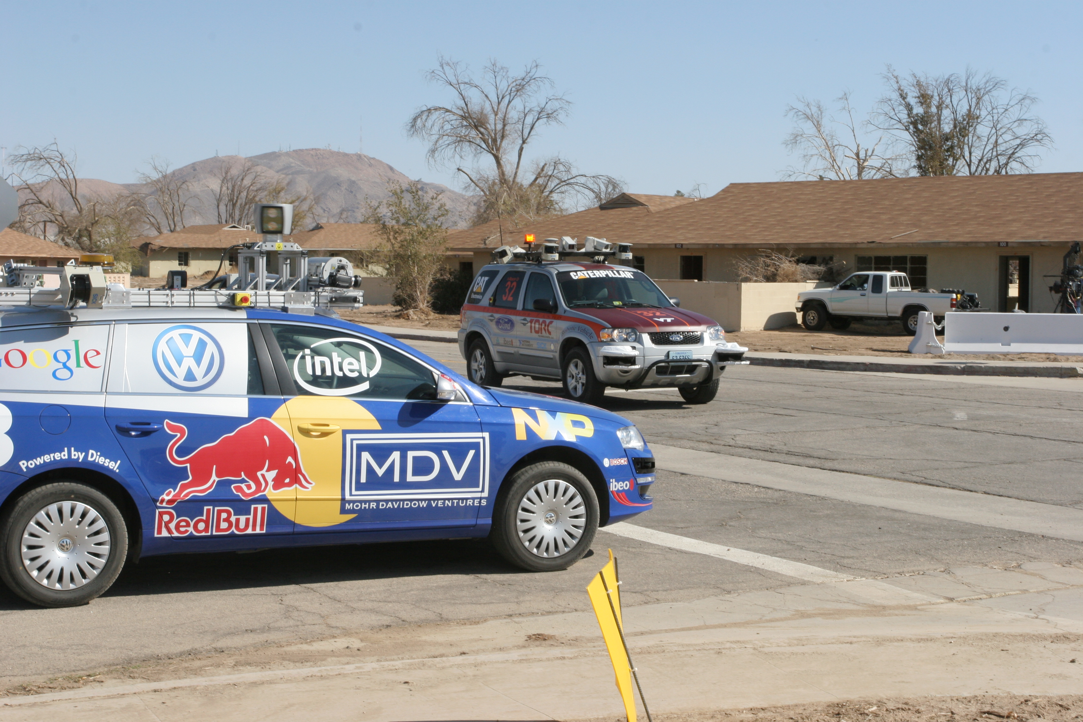 Image of the Darpa Urban Challenge produced by the US government and is therefore part of the public domain.